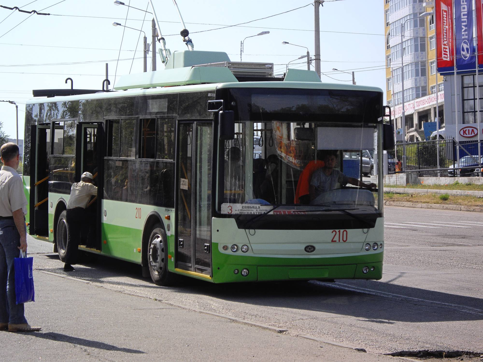 Trolleybus BOHDAN T-601.11.